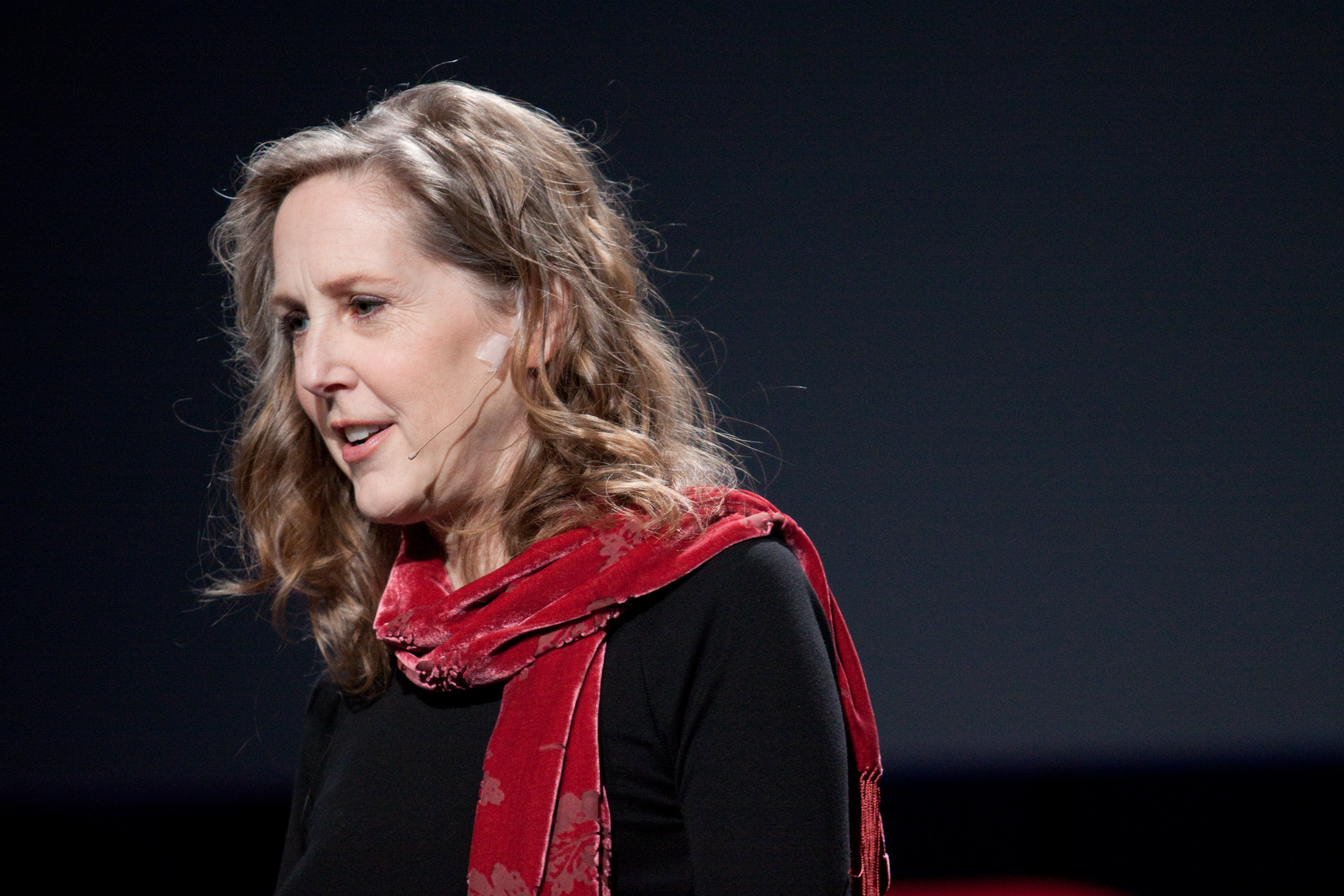 Mary Roach